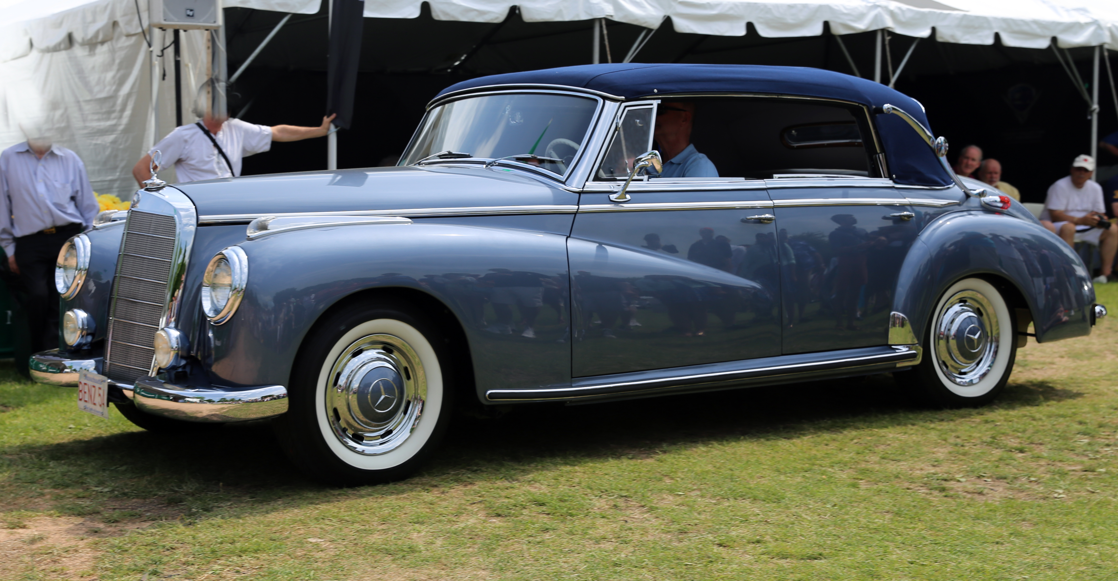 1954 Mercedes-Benz 300b Cabriolet ("Adenauer") at the 2013 Greenwich Concours d'Elegance.